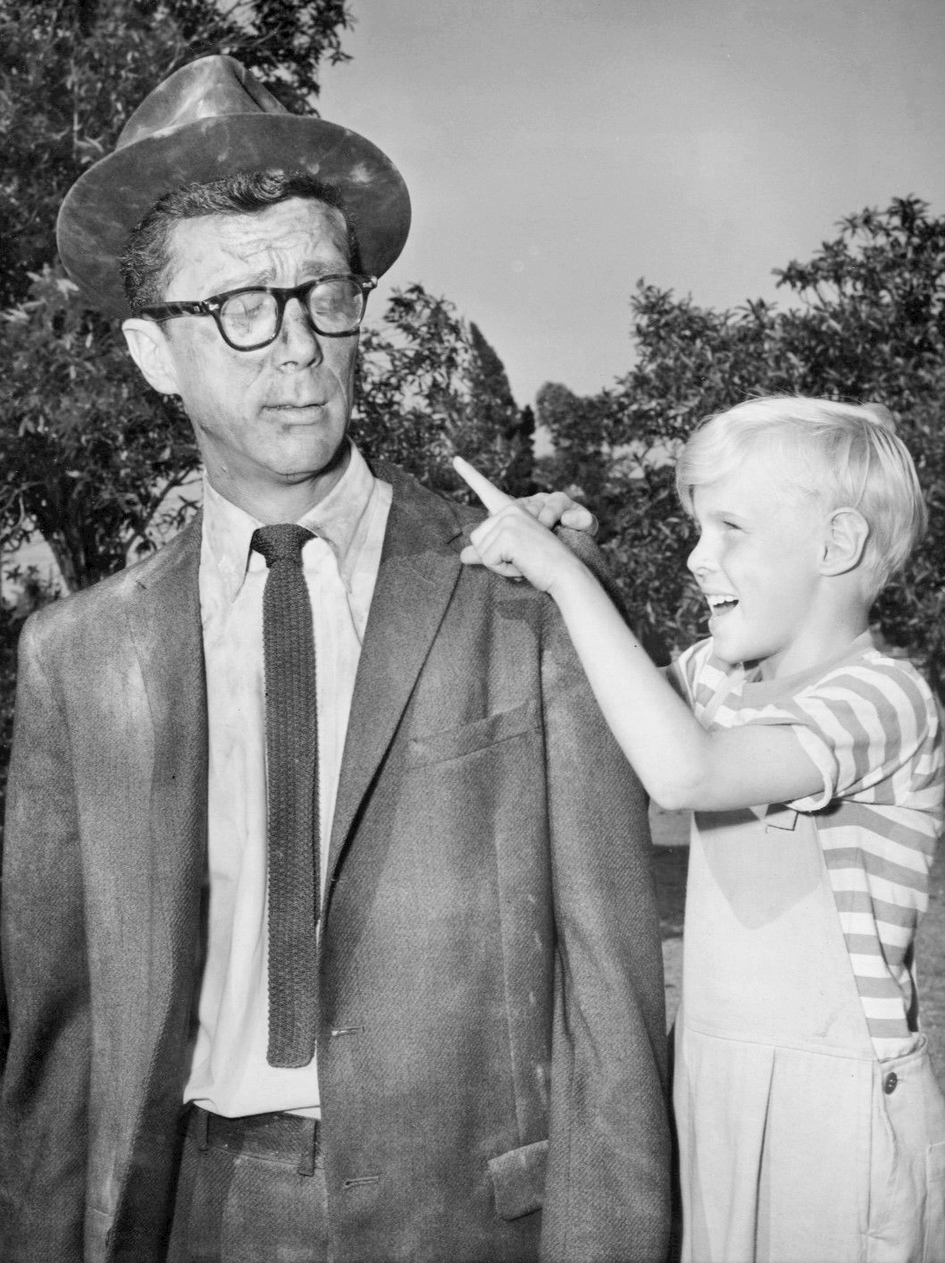 Photo of Herb Anderson as Henry Mitchell and Jay North as his son, Dennis, from the television program Dennis The Menace.